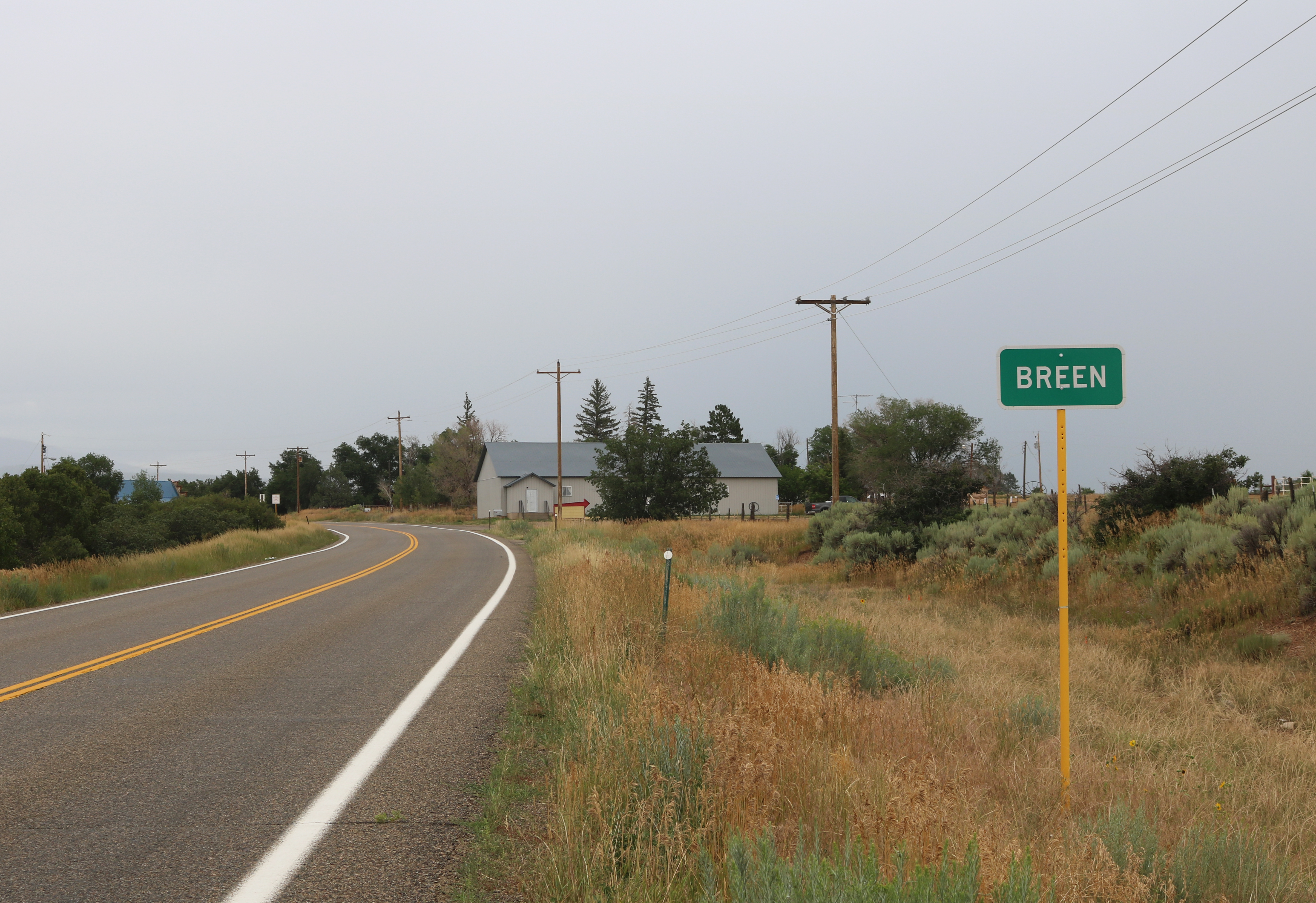 Breen, Colorado and Colorado State Highway 140. The building in the picture is the Breen Community Building.